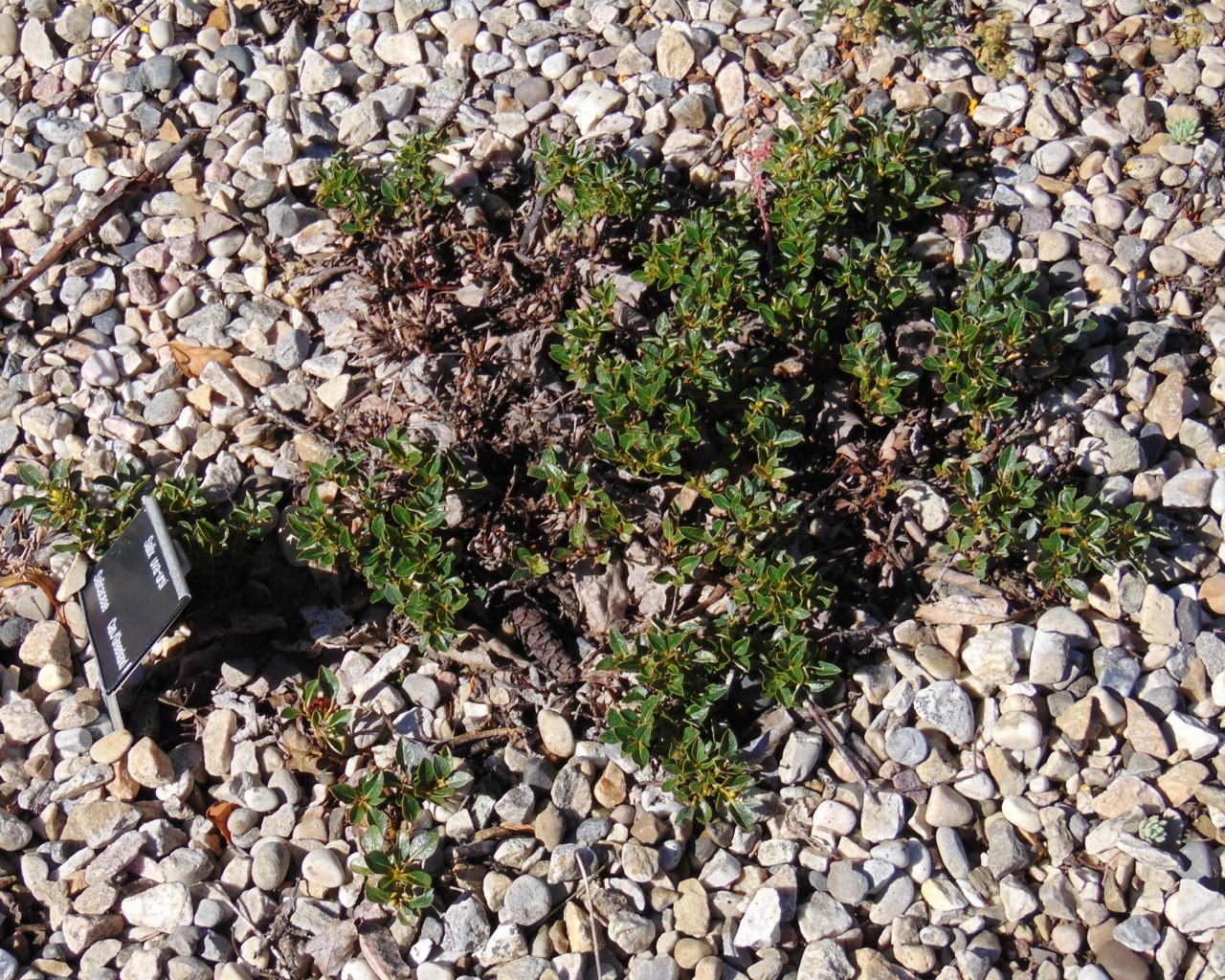 Salix uva-ursi, Patrick Seymour Alpine Garden